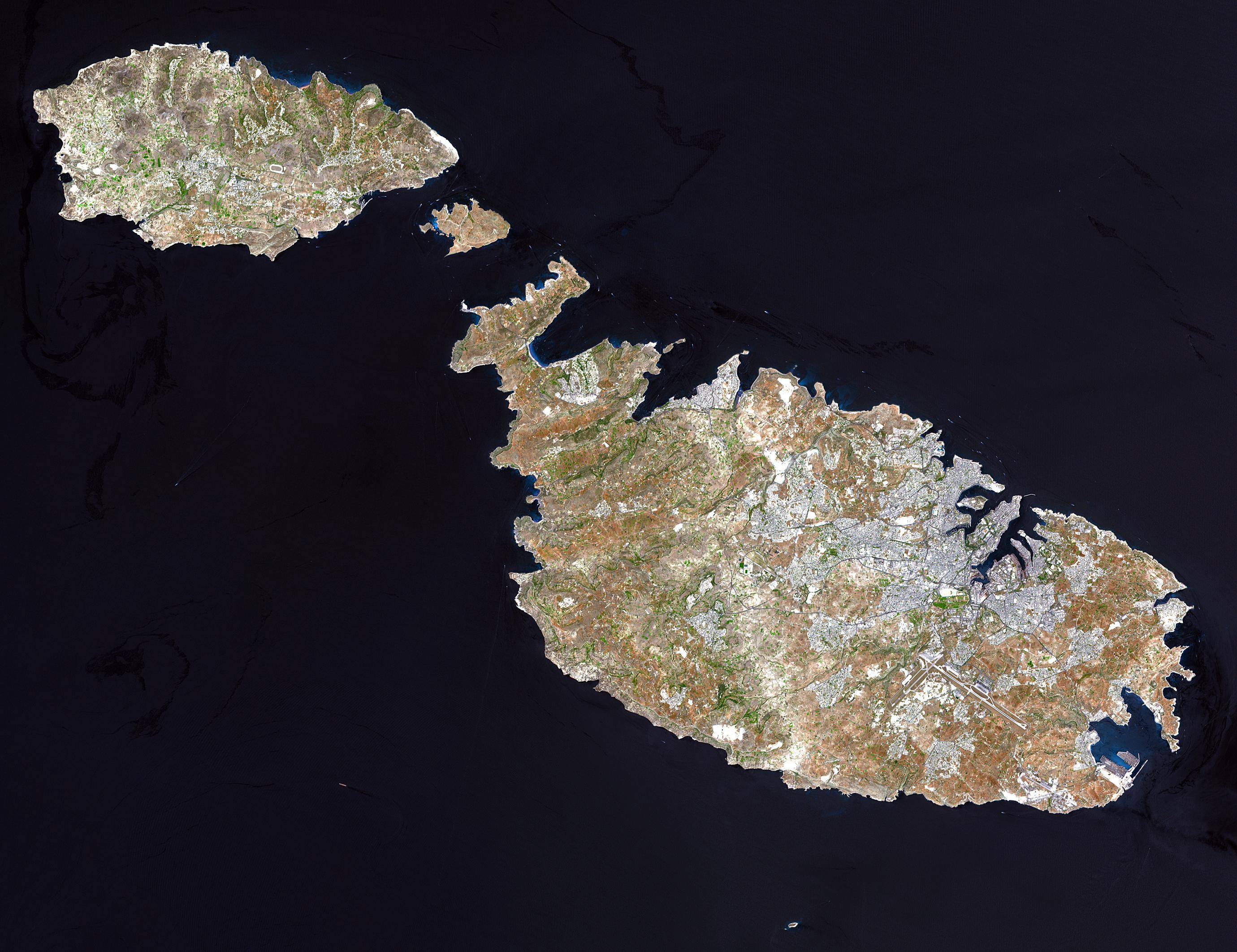 Malta, an independent republic, consists of a small group of islands—Malta, Gozo, Kemmuna, Kemmunett, and Filfla—located in the Mediterranean Sea south of Sicily, with a total area of 316 square kilometers. The capital and leading port of the country is Valletta, which appears as a gray patch around the two deep inlets on Malta’s northern coastline. About 400,000 people live on this island nation. The islands of Malta consist of low-lying coralline limestone plateaus surrounded by impermeable clay slopes. The highest point is 239 meters above sea level. The many ancient monuments and remains on Malta attest to the great age of its civilization. Remains from Stone Age and Bronze Age peoples have been found in subterranean burial chambers. The islands became a Phoenician colony about 1000 B.C. They were later occupied by the Greeks, who called the colony Melita, and later the islands passed successively into the possession of Carthage and Rome. The islands were occupied by Arabs in 870 A.D. A Norman army conquered the Maltese Arabs in 1090, and Malta was later made a feudal fief of the kingdom of Sicily. In 1530 Holy Roman Emperor Charles V granted Malta to the Knights of Saint John of Jerusalem, who ruled the islands until the 19th century. In 1798 Napoleon invaded and occupied the islands during his Egyptian campaign. Unwilling to be ruled by France, the Maltese appealed to Britain, and in 1799 British naval officer Horatio Nelson besieged Valletta and compelled the withdrawal of the French. In 1814 Malta became part of the British Empire as a crown colony. This natural-color image was acquired on July 29, 2001, by the Advanced Spaceborne Thermal Emission and Reflection Radiometer (ASTER) aboard NASA’s Terra satellite. Image courtesy NASA/GSFC/MITI/ERSDAC/JAROS, and U.S./Japan ASTER Science Team